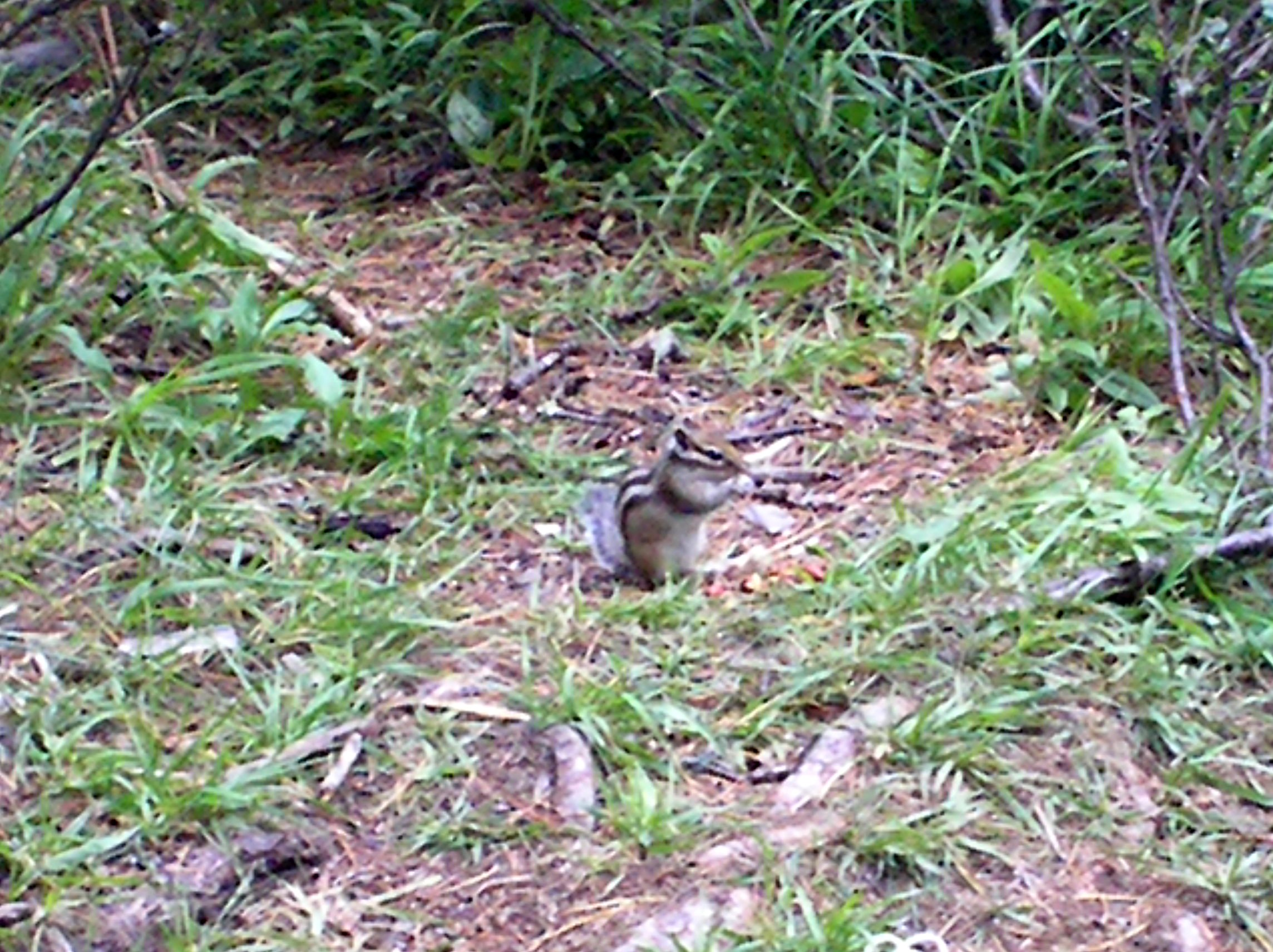 Siberian chipmunk (Tamias sibiricus) in Ust-Koksinsky District of the Altai Republic